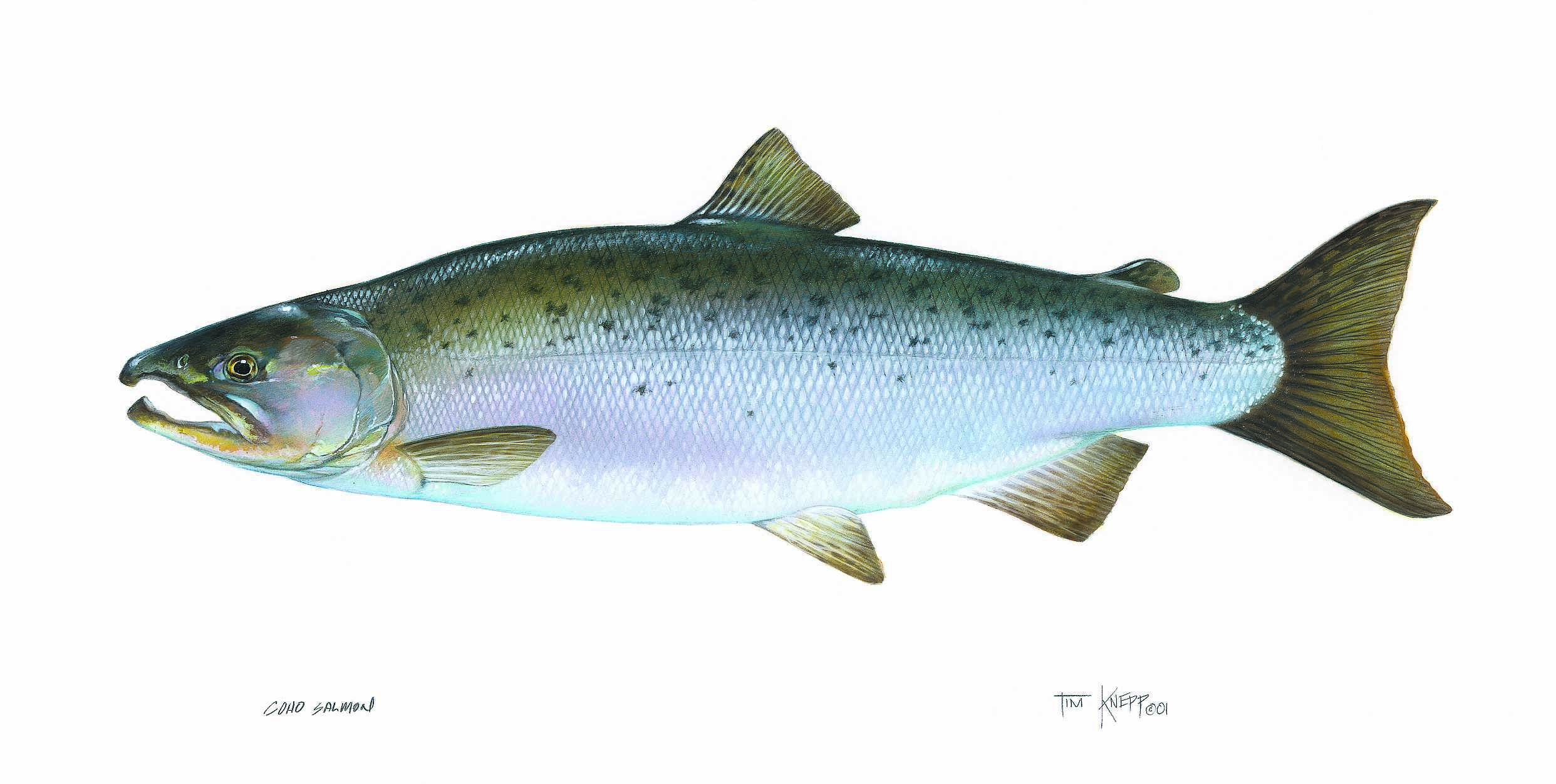 Image title: Coho salmon (Oncorhynchus kisutch) Image from Public domain images website